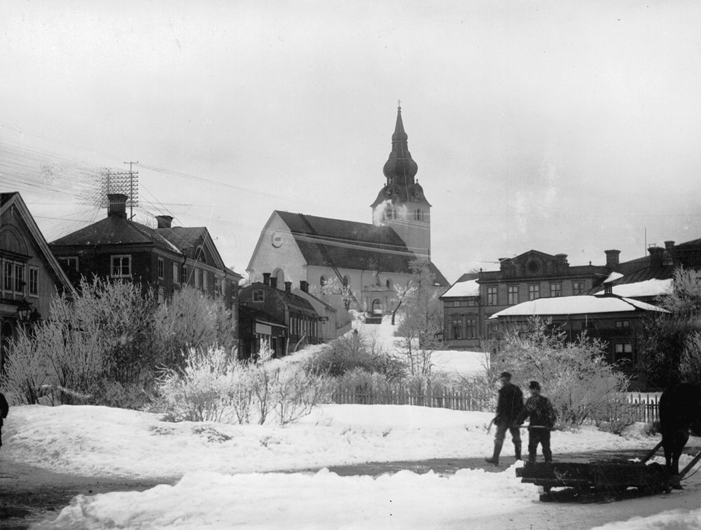 Hudiksvall Church (Jakob's Church) in central Hudiksvall Town. The church was inaugurated in 1672.